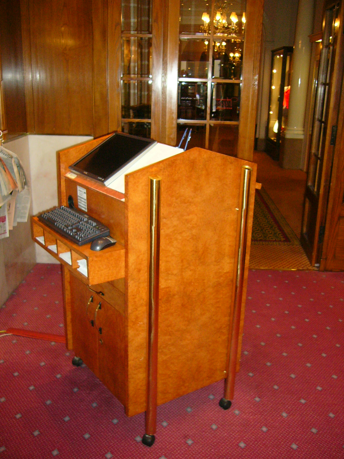 Reception desk with a computer in a restaurant (Munich, Germany)